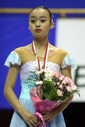 Yuki Nishino on the ladies podium at the 2007-2008 Junior Grand Prix Final. She won the bronze medal at this competition.